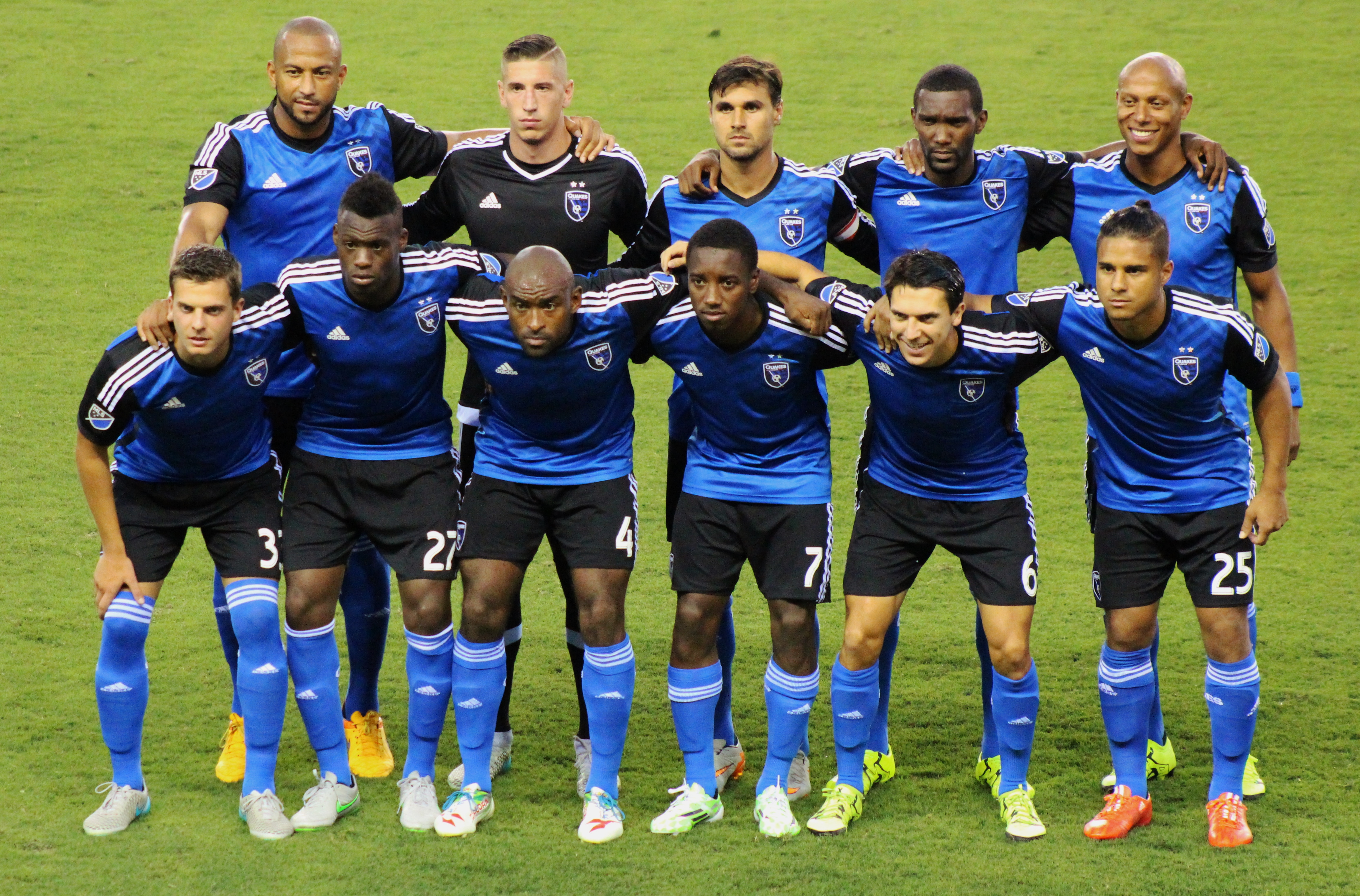 San Jose Earthquakes 08.2015